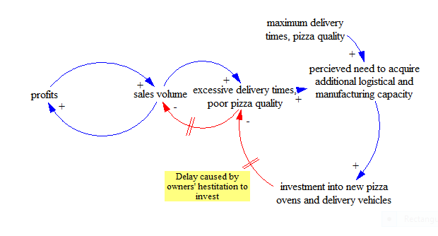 Home Delivery Pizza Company - Growth and Underinvestment Archetype